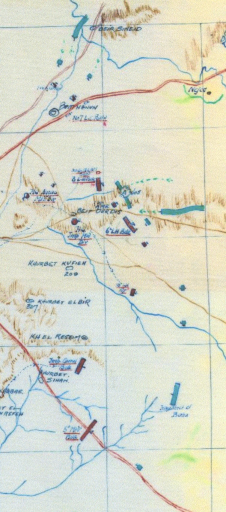 Position of the mounted screen and hostile attackers at 18:00 during First Battle of Gaza Other information Australian Government document